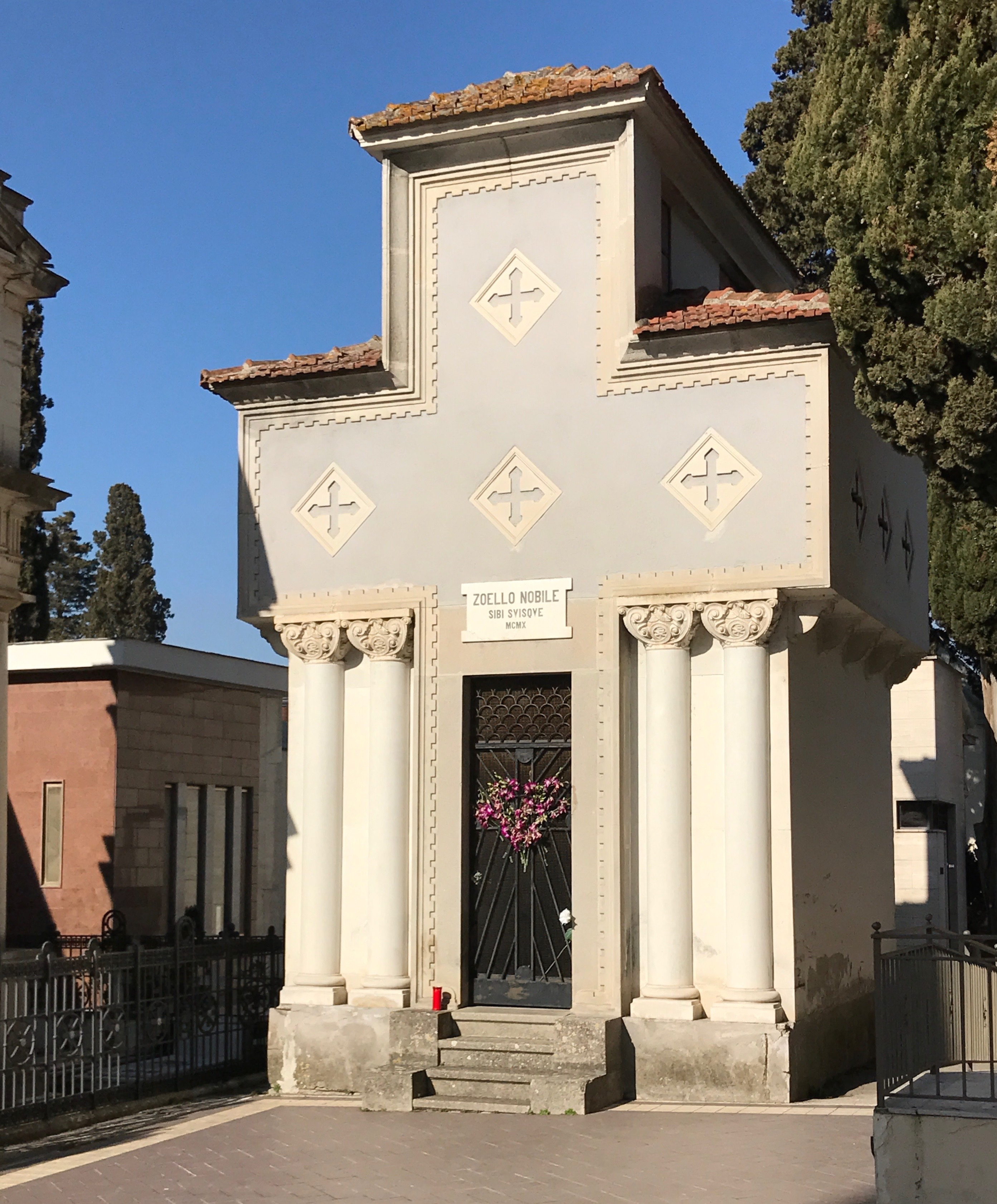 Tomb of Carlotta Nobile (municipal cemetery of Benevento).